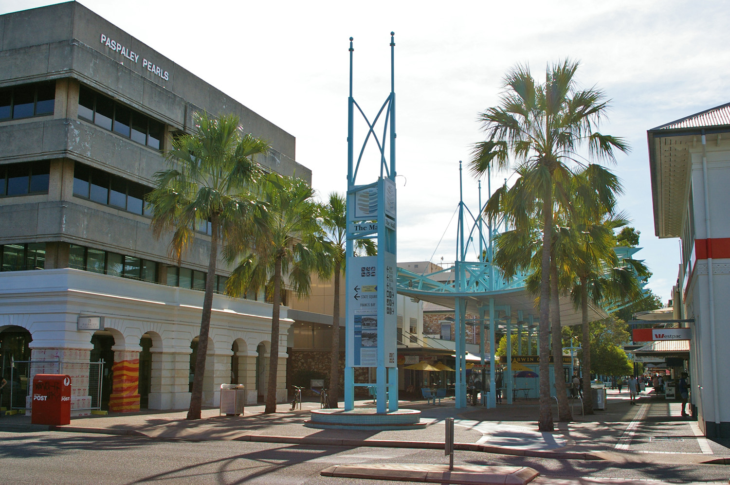 Smith Street Mall, Darwin, Northern Territory